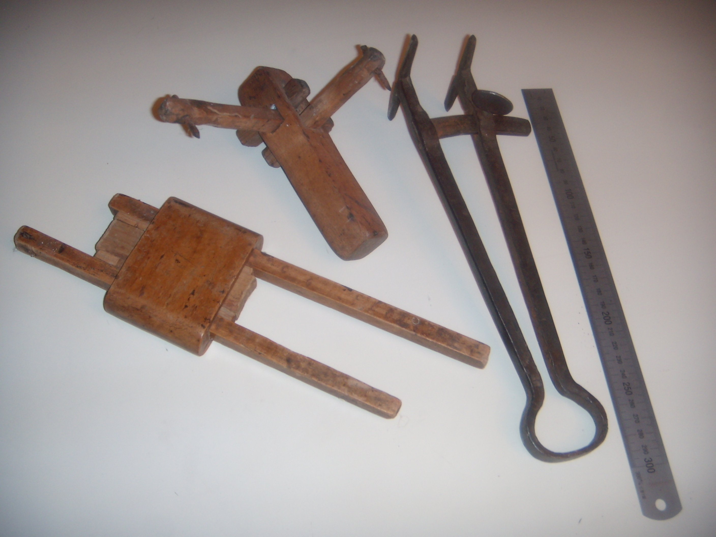 Timber framing tools for marking out.